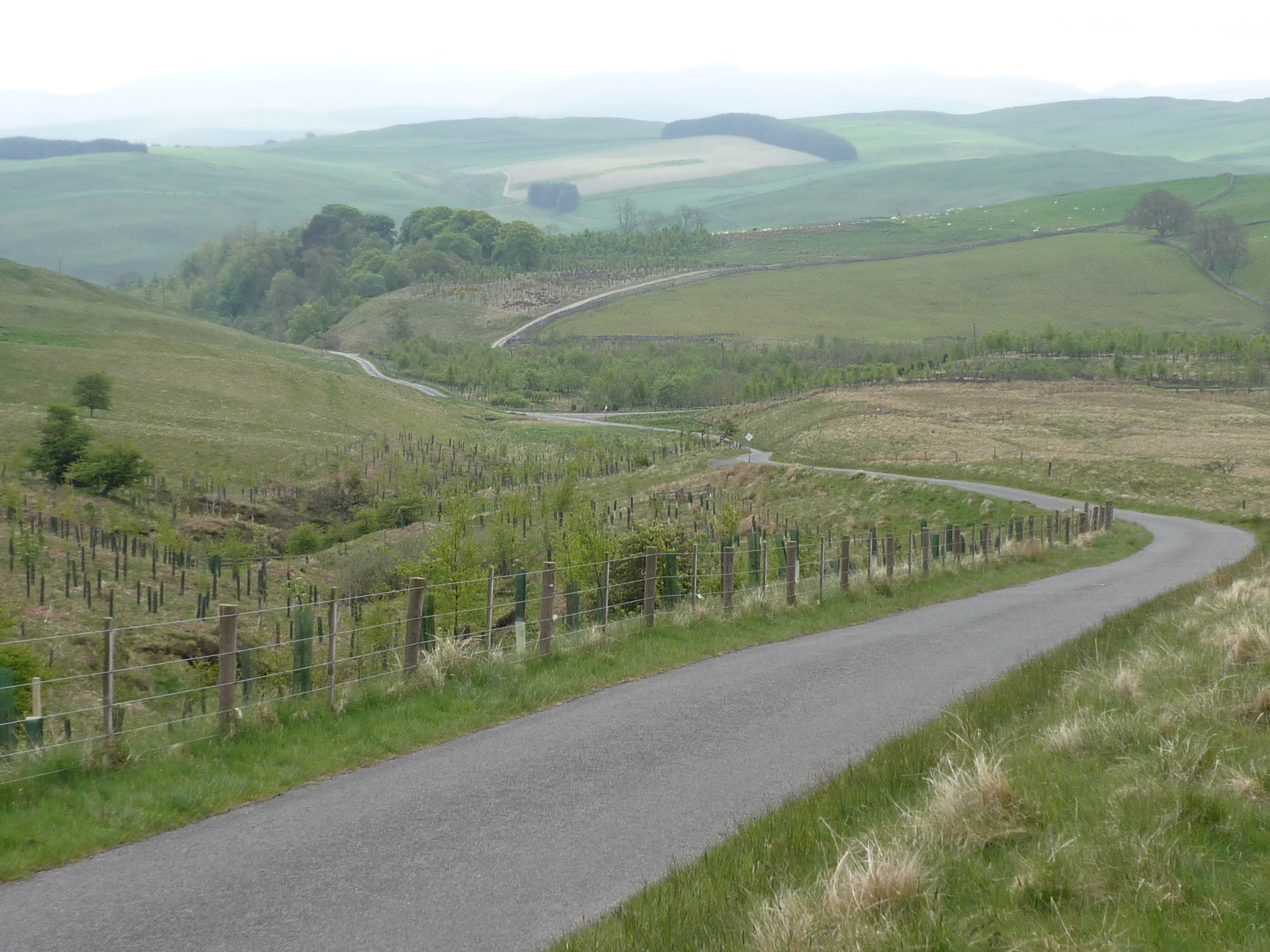 Road from Ashkirk towards Harden, in the Roberton area, Scottish Borders, Scotland, United Kingdom. Shows rolling hills, and revegetating area. Taken 23 May 2018.